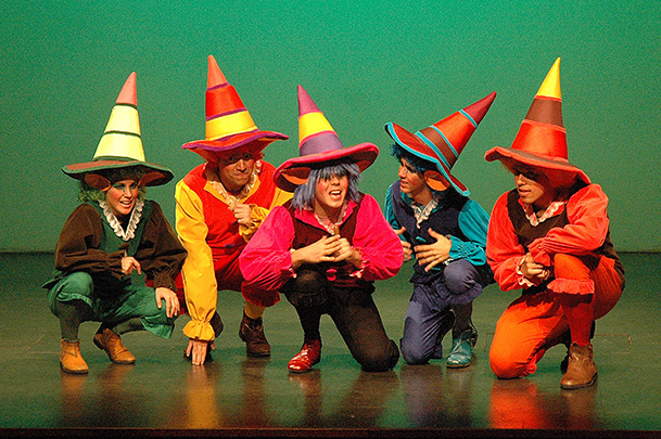 "Os Duendes Imaginários", espetáculo criado em homenagem aos 40 anos do Grupo Divulgação, em 2006.